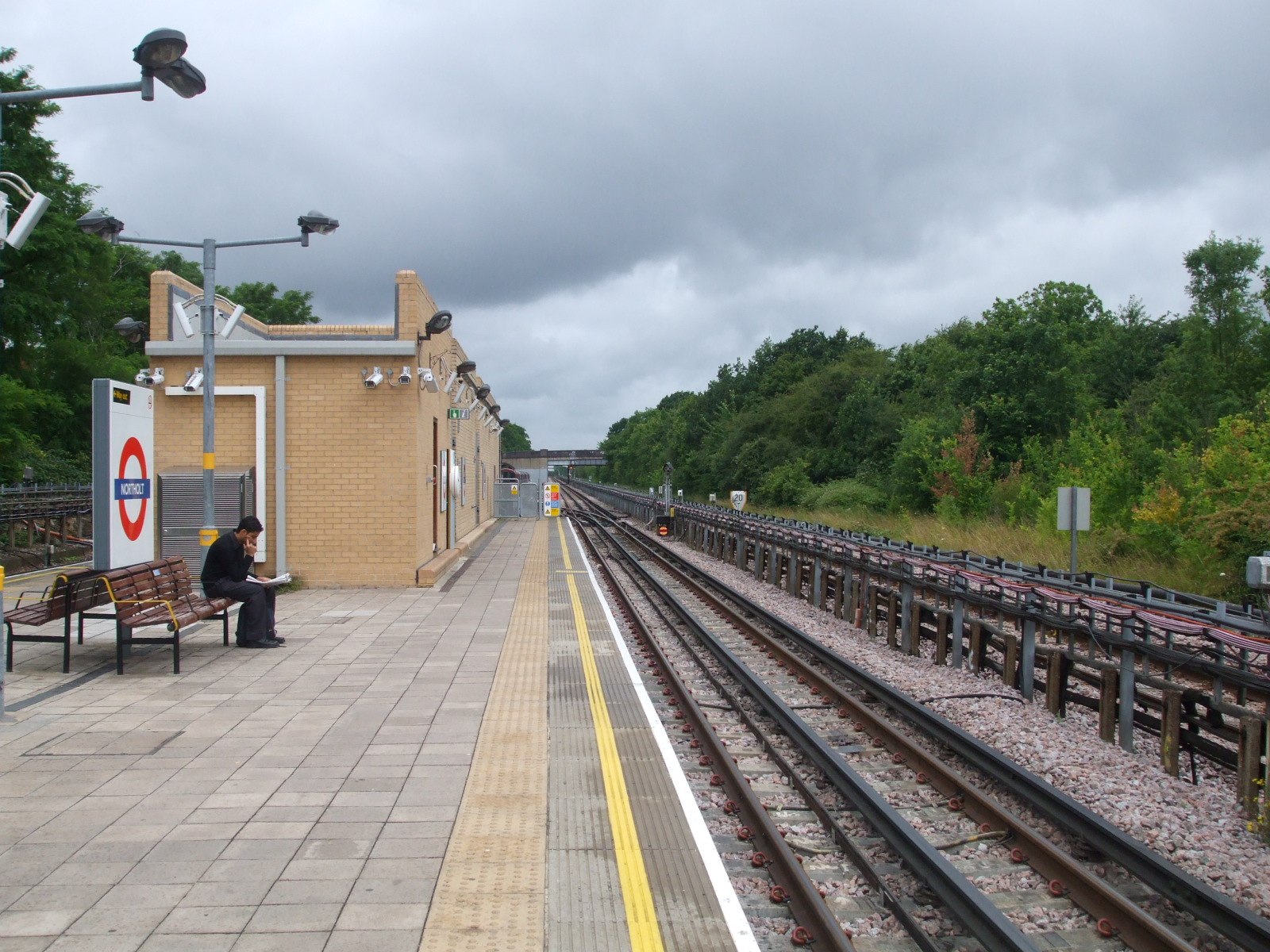 Northolt tube station island platform looking west, with rarely used former GWR route on extreme right, reduced to single track. There is a reversing siding for the Central line just to the west of the station.